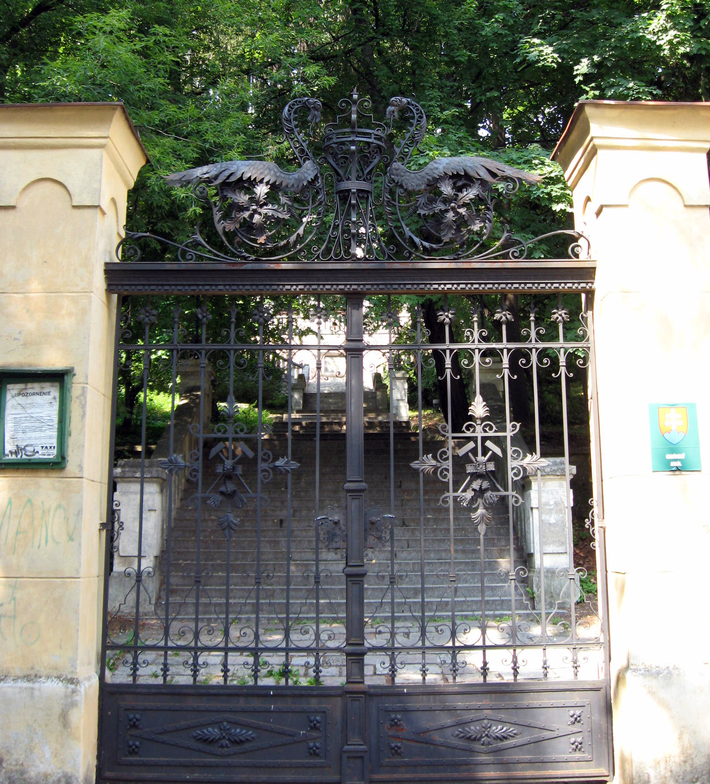 Main gate to the Botanical Gardens, established as part of the Academy of Mining and Forestry, Banksa Stiavnica, Slovakia